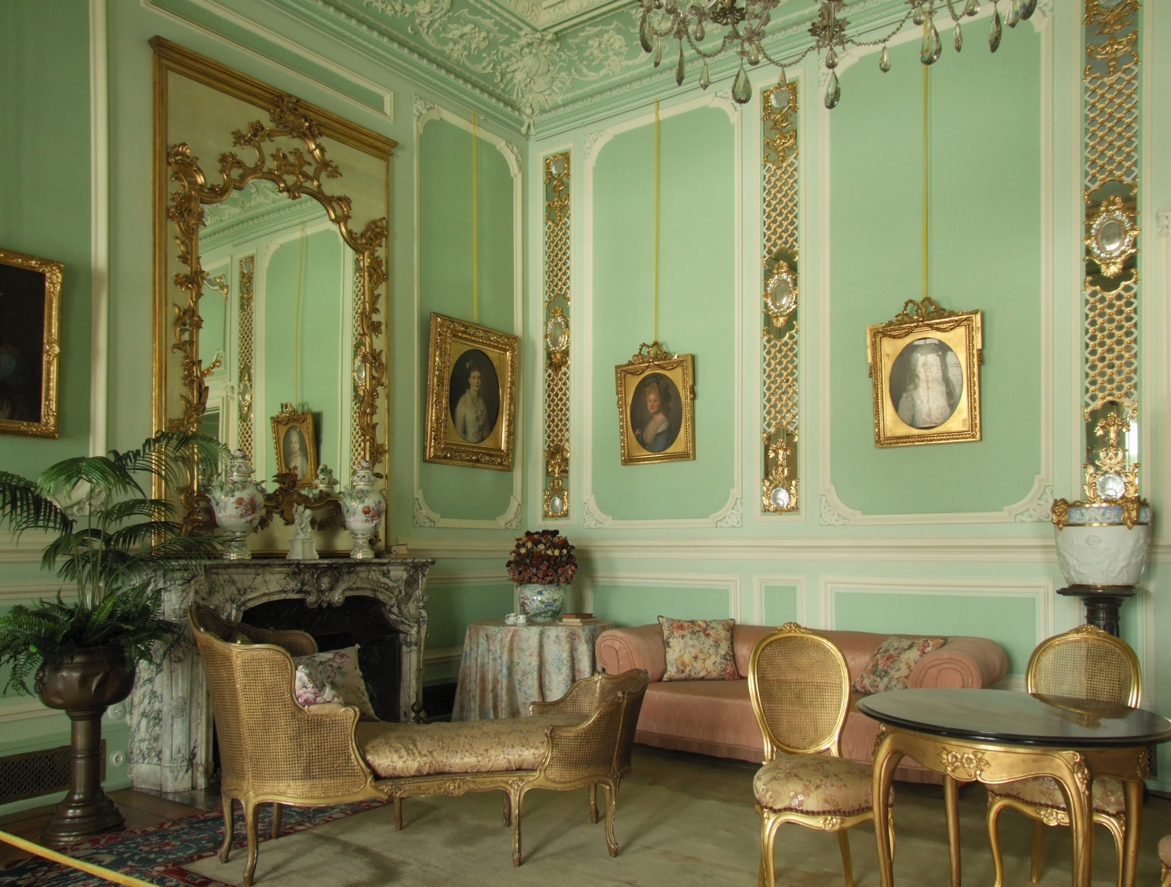 Pszczyna (Pless) Palace - the Green Parlour (first floor)